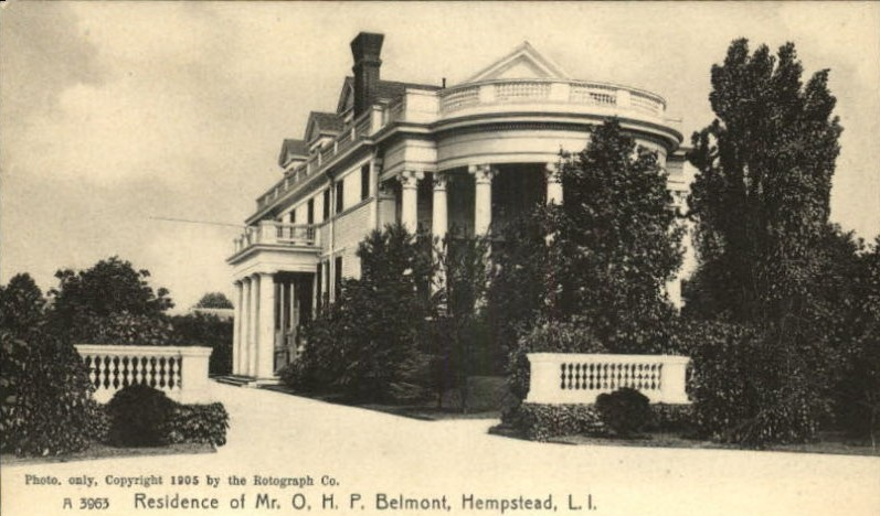 Brookholt Mansion in East Meadow, Long Island, New York.